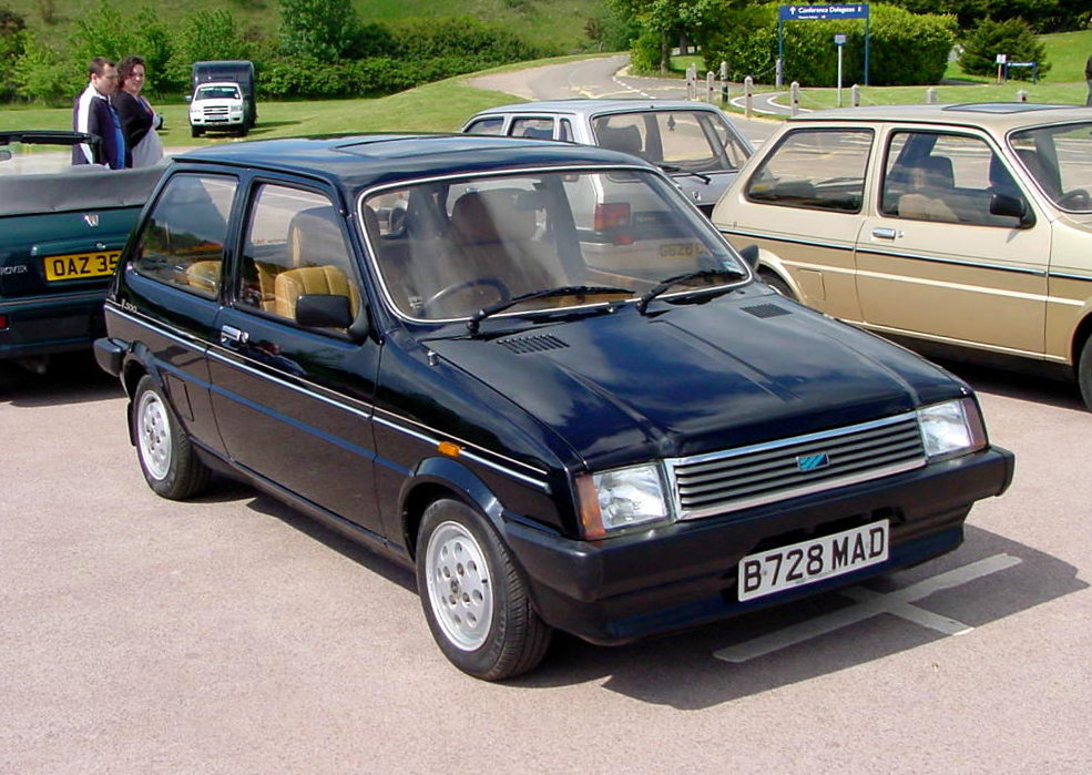 August 1984 black Austin Metro 1.3 Vanden Plas 500 limited special edition. Metro 30th Anniversary at Heritage Motor Centre, Gaydon, UK